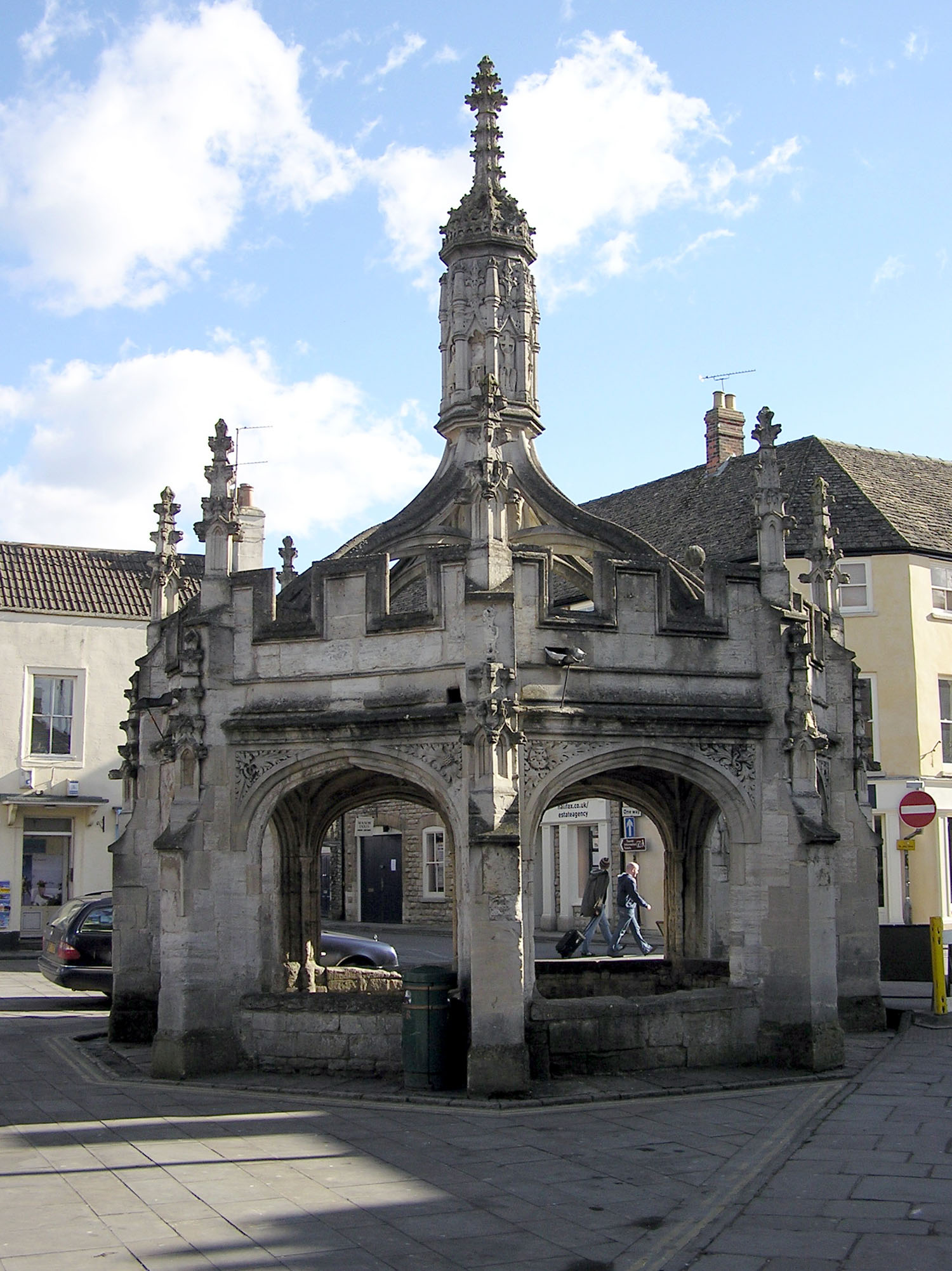 The Market Cross was built at the end of the 15th Century and was, according to a quote of the time, “a place for poor folkes to stand when the rain cometh” . Today it remains one of the finest examples of its kind in England. Taken by Adrian Pingstone in February 2005 and released to the public domain.